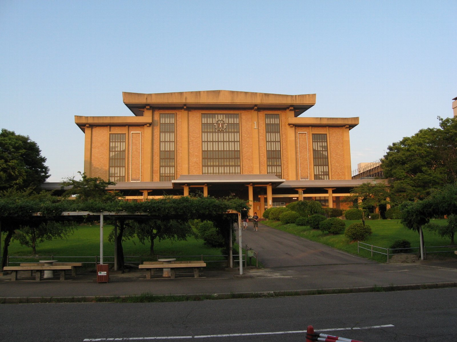 Aichi Gakuin University Building 1 (愛知学院大学日進キャンパスの1号館)